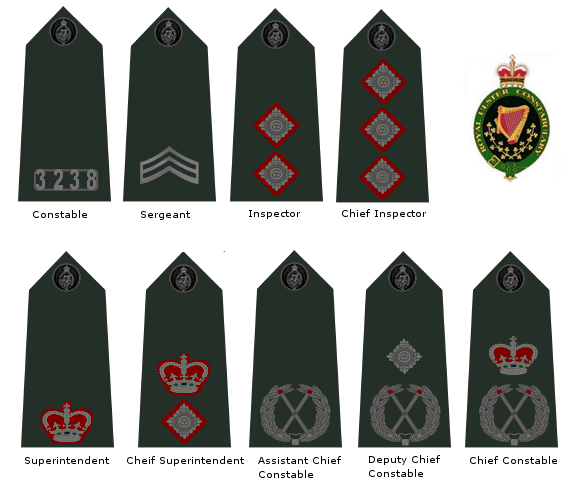 Royal Ulster Constabulary ranks